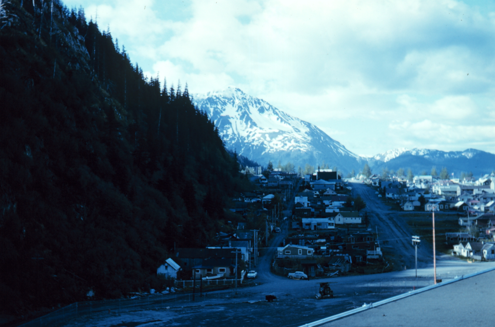 Seward, Alaska in June 1959